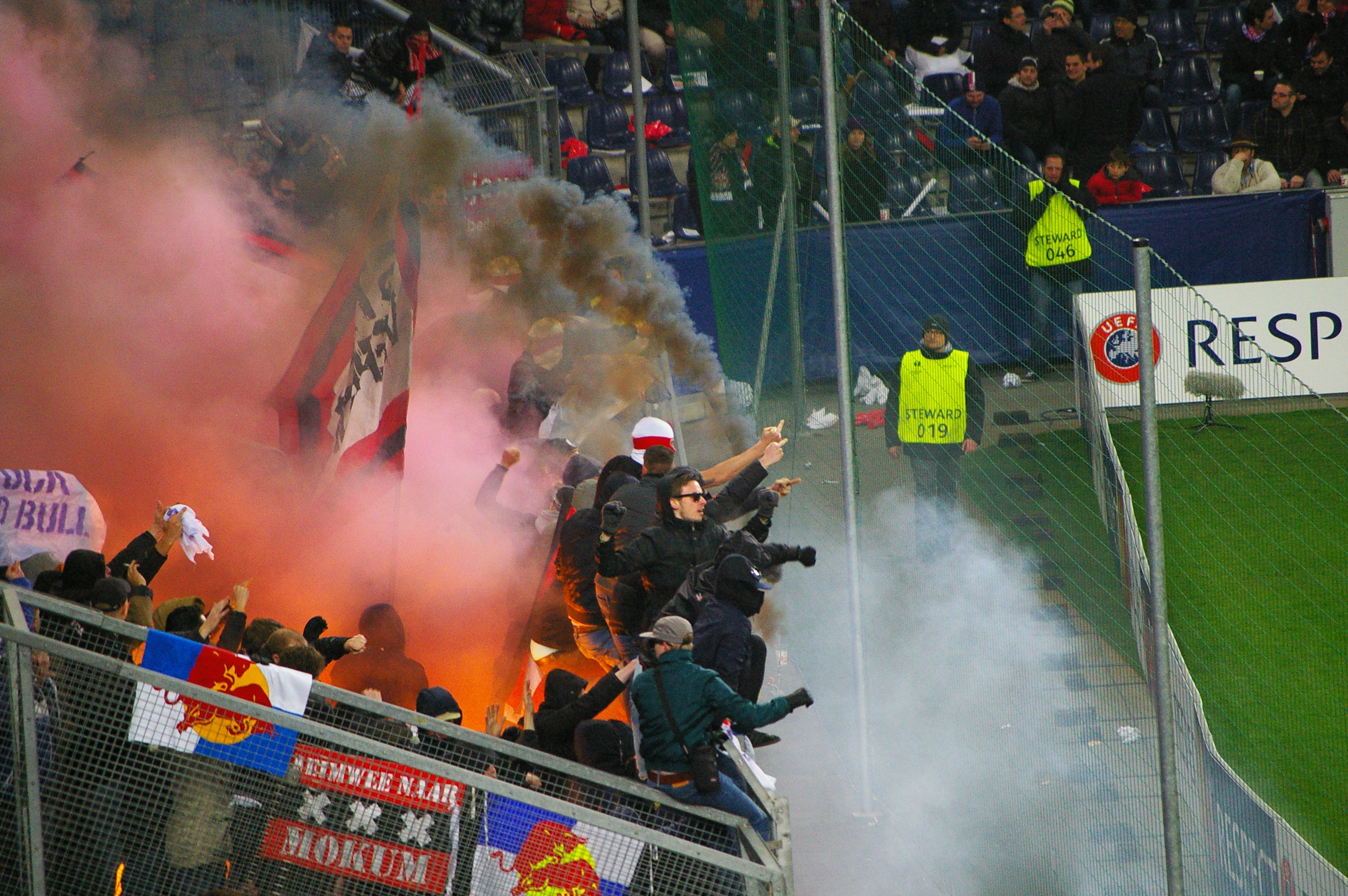 UEFA Euro League round of 32